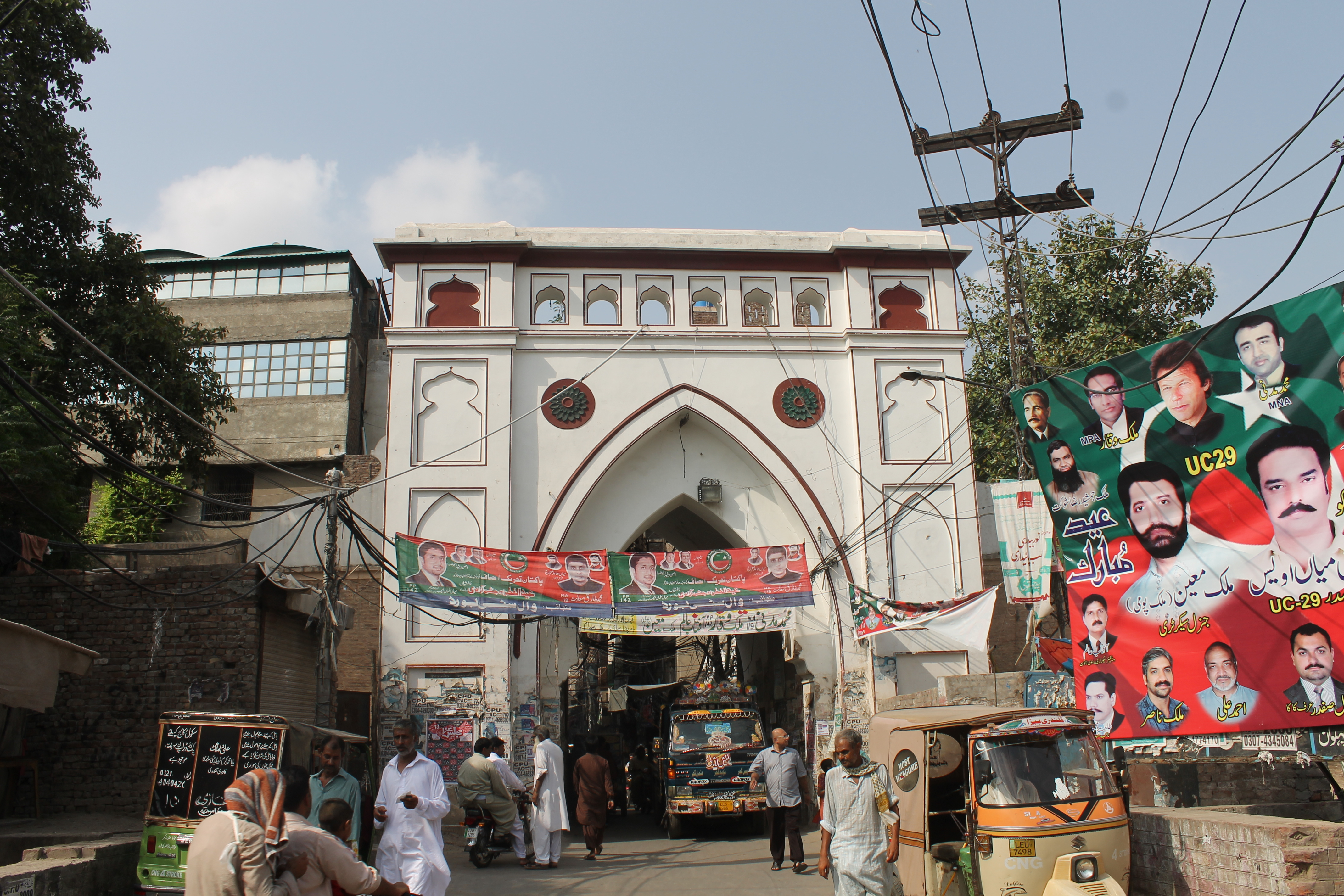 Bhati Gate This is a photo of a monument in Pakistan identified as the PB-48